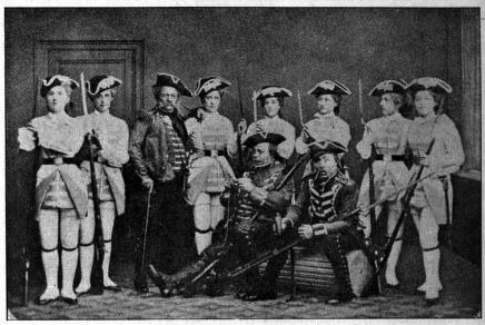 Scenery from ”Nya garnison”